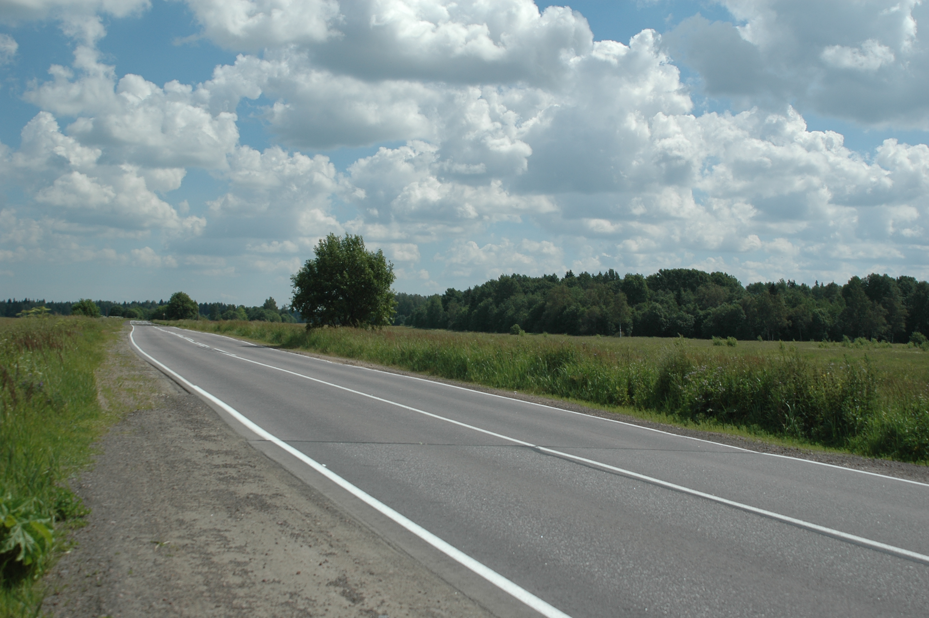 Lomonosovsky District, Leningrad Oblast, Russia